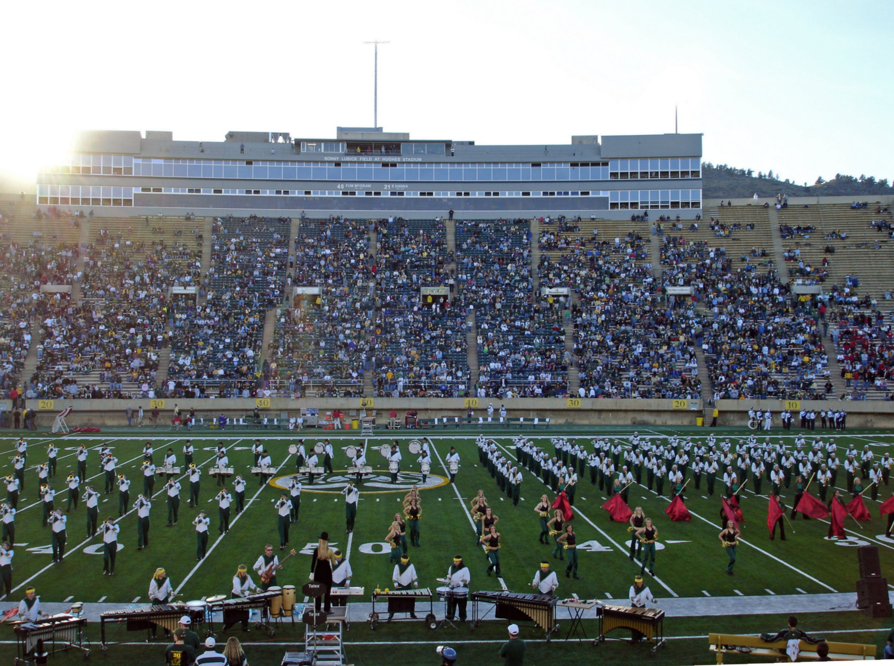 Sonny Lubick Field at Hughes Stadium on October 28, 2006. Halftime of the CSU vs. NM football game.